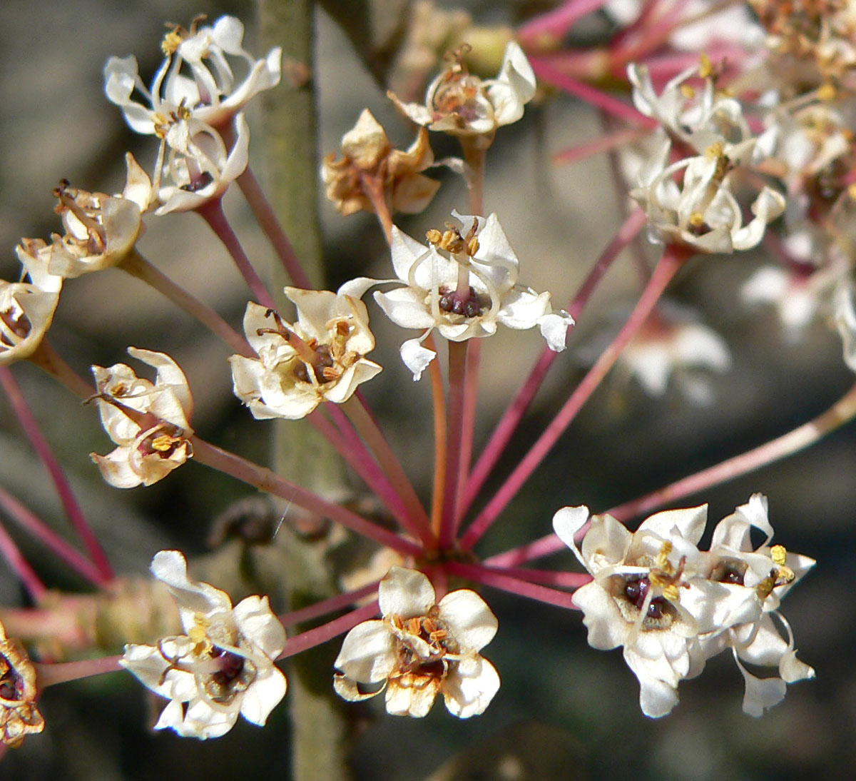 Closeup photo of Ceanothus crassifolius (hoaryleaf ceanothus) flower — at the Regional Parks Botanic Garden, Berkeley, California.